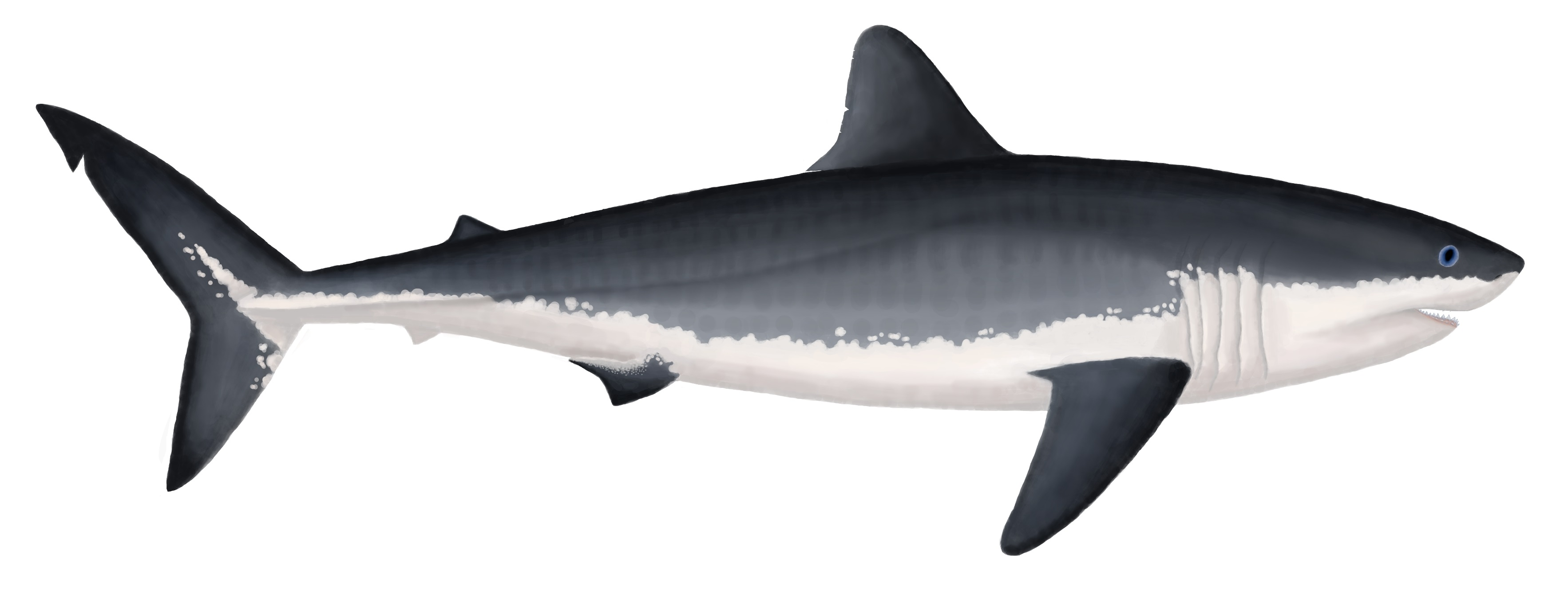 Life reconstruction of the ginsu shark (Cretoxyrhina mantellii) based on Shimada (1997) and Sternes & Shimada (2018).